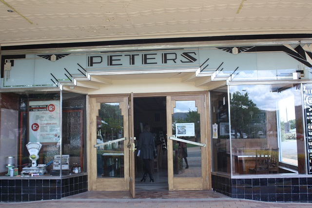 Roxy Theatre and Peters Greek Cafe Complex: The Roxy Theatre and Peters Greek Café Complex